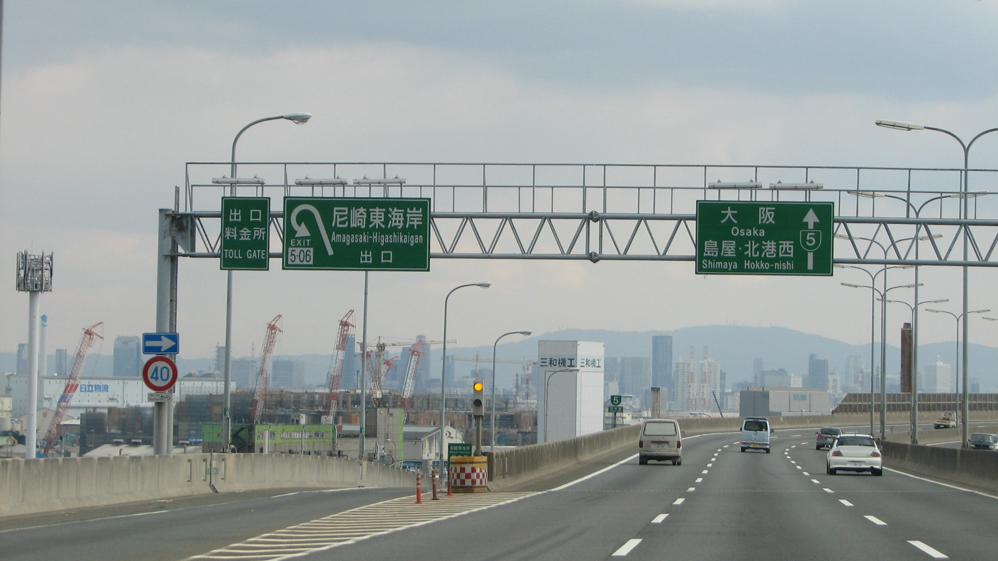 Hanshin Expressway Amagasaki-Higashikaigan IC